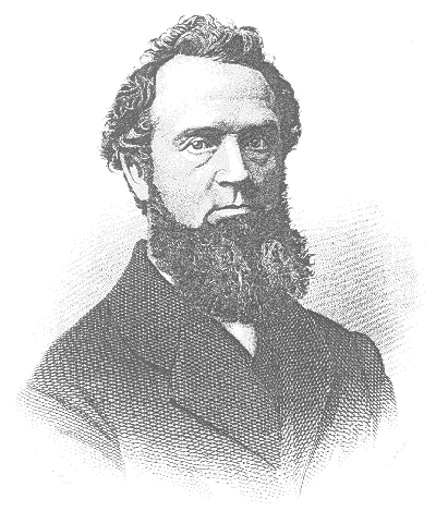 The first issue came off the press dated April 7, 1866 with Erret as editor